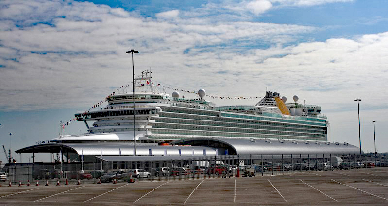 The new Ocean Terminal (berth 46) at Southampton Docks with the P&O cruise liner Azura alongside Information about the vessel may be found at IMO 9424883.A ship can change name and flag state through time, but the IMO number remains the same through the hull's entire lifetime. As a result, it can be useful to identify a ship by using the IMO number.